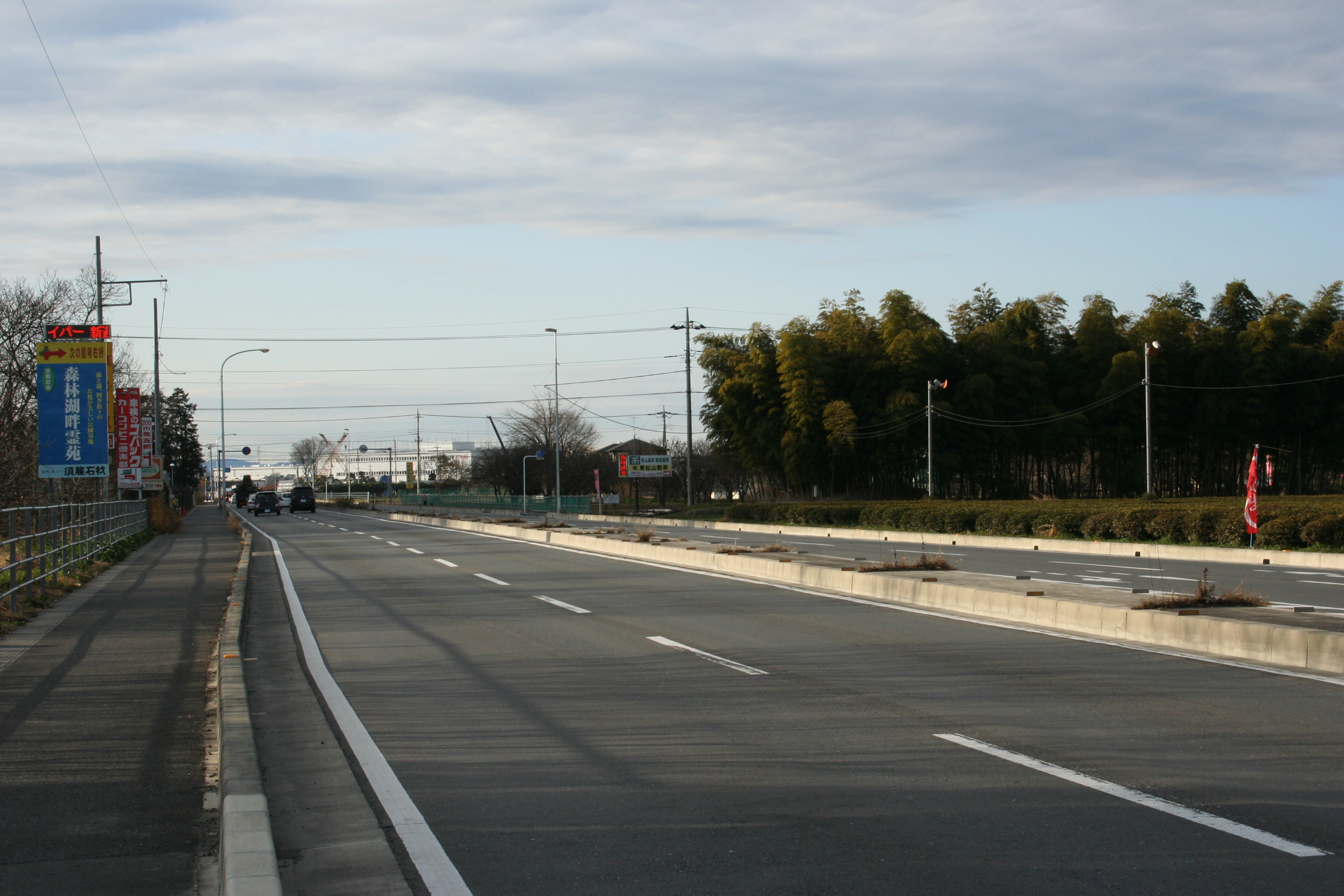 Higashimatsuyama bypass of Route 254, Higashimatsuyama-shi, Saitama, Japan